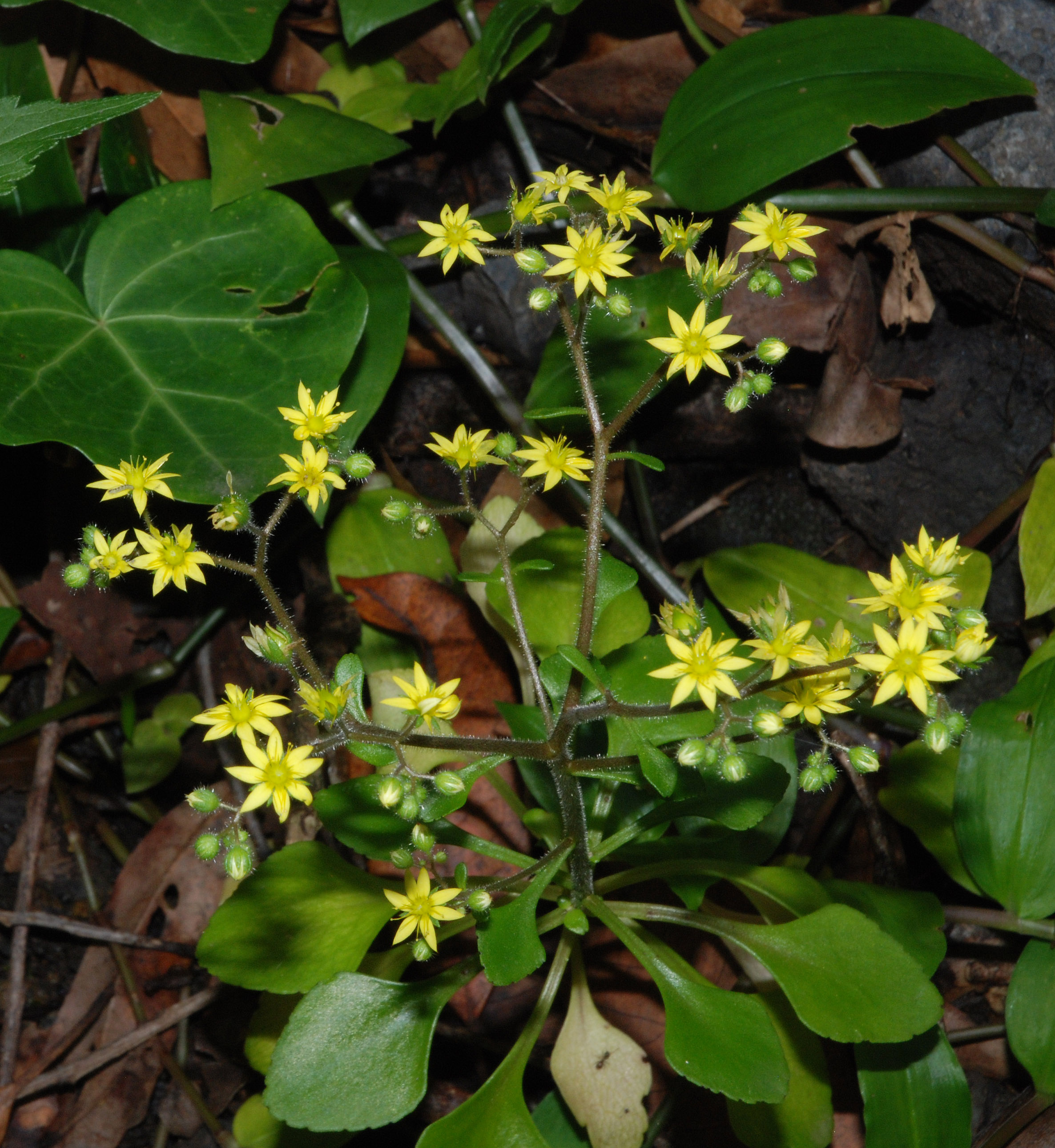 Aichryson punctatum, Cubo de la Galga, La Palma, Spain